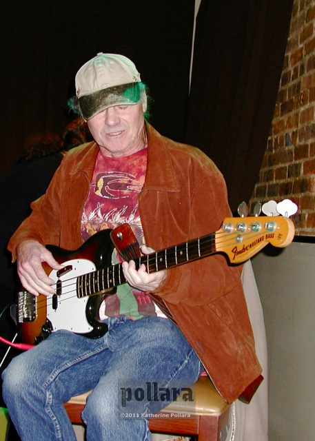 Little Vinnie Roslin, bass guitarist, from 2007, taken in Red Bank, NJ at The JSJBF Membership meeting, playing with the band Nine Below Zero.